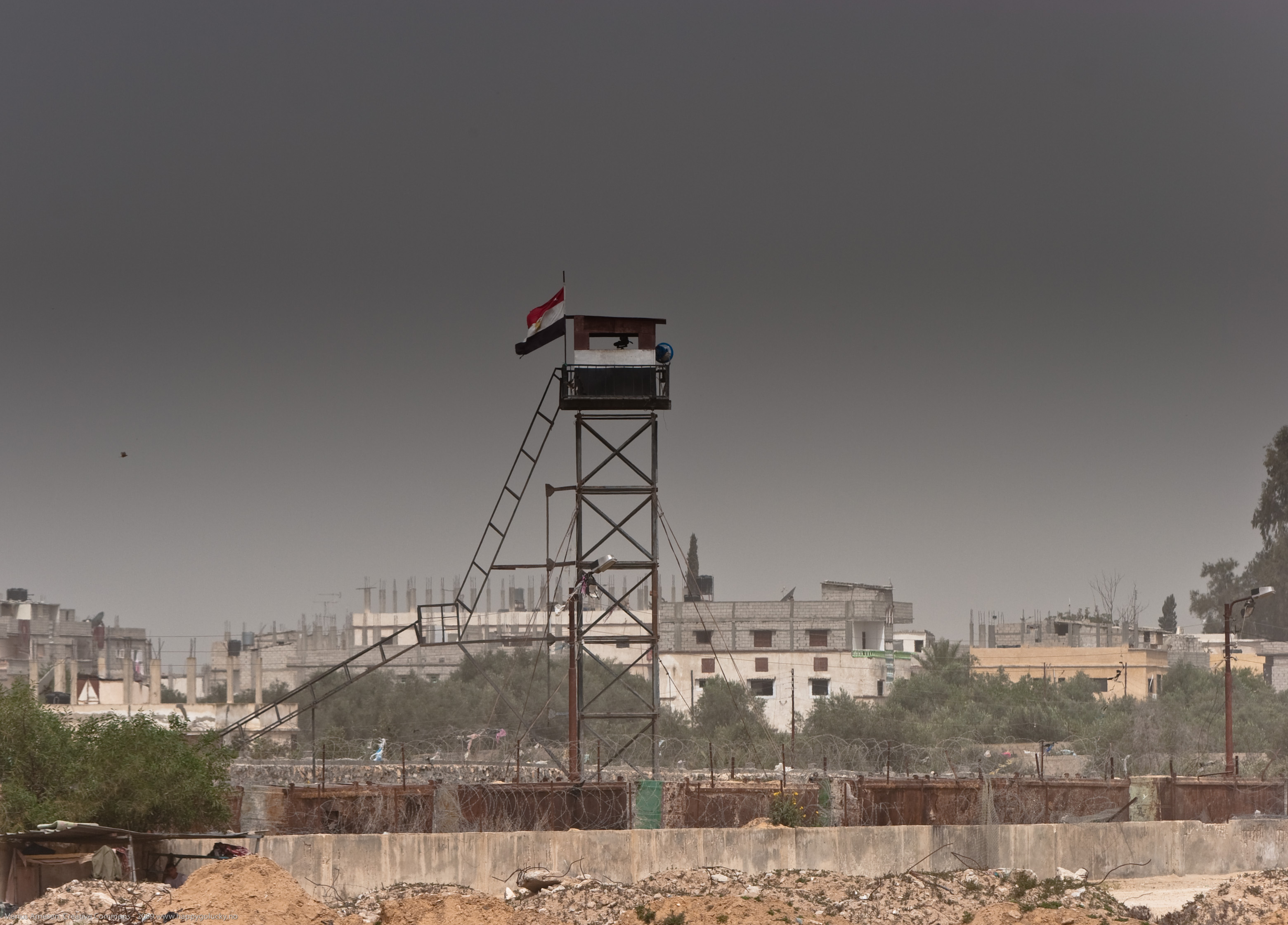 Watchtower, Rafah, Gaza Strip border with Egypt, April 2009.